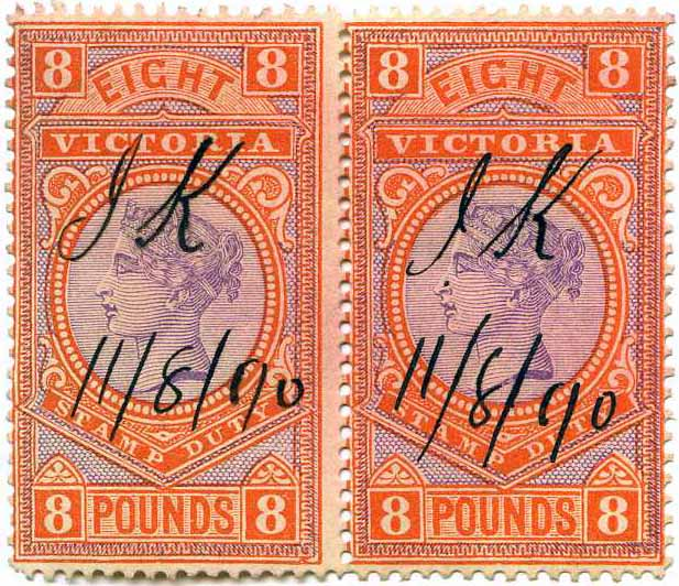 Victoria 02 August 1890 issue, £8 stamp duty revenue stamp, plume used 11 August 1890. Michel #47, SG327.